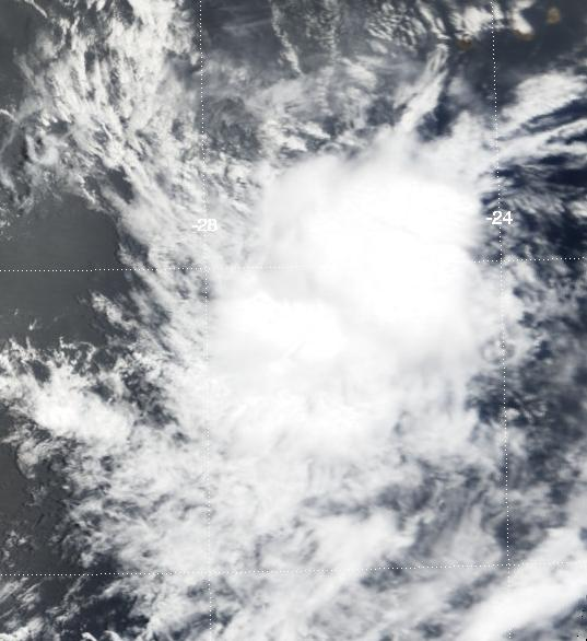 MODIS image of Hurricane Dean when it was merely a Low at 1245 UTC on August 12